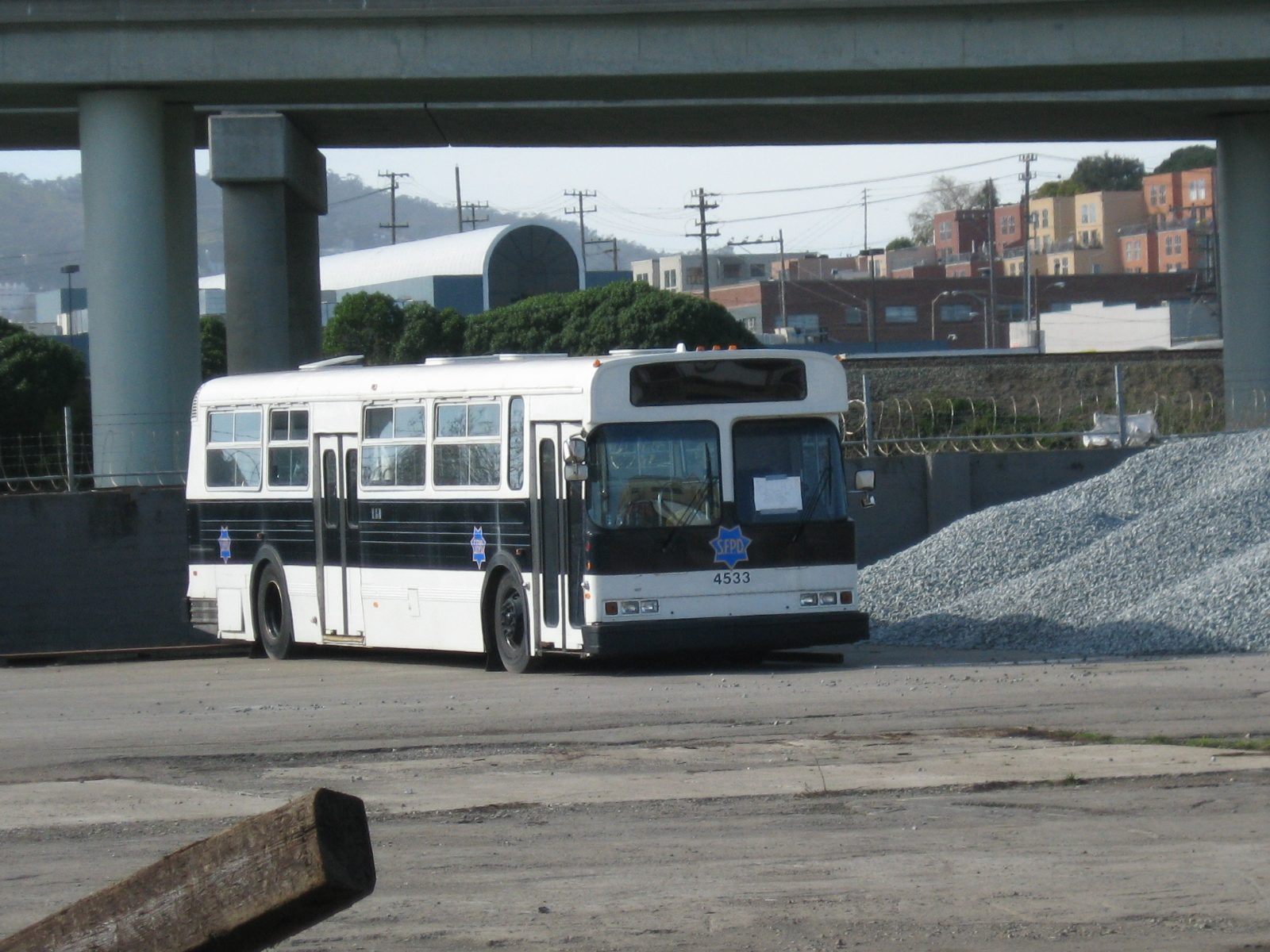 A Flyer D902 ex-MUNI bus parked at Islais Creek. This bus retired in 2005, and is now owned by the San Francisco Police Department